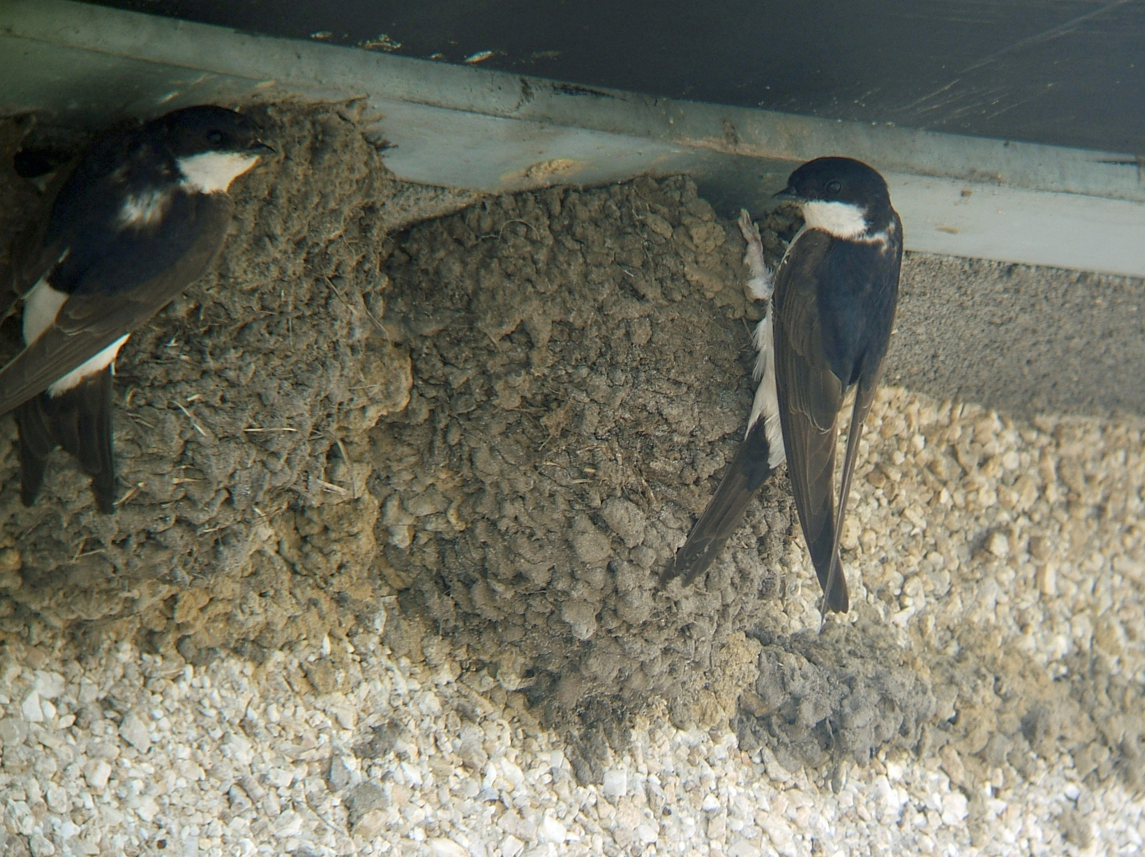 House Martin (Delichon urbicum), West Woodburn, Northumberland, UK. Coordinates intentionally inaccurate (±300 m) to protect privacy of house owner.